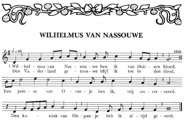 A sheet music example of Het Wilhelmus, made by me using Finale 2003 and a pen drawing by myself.